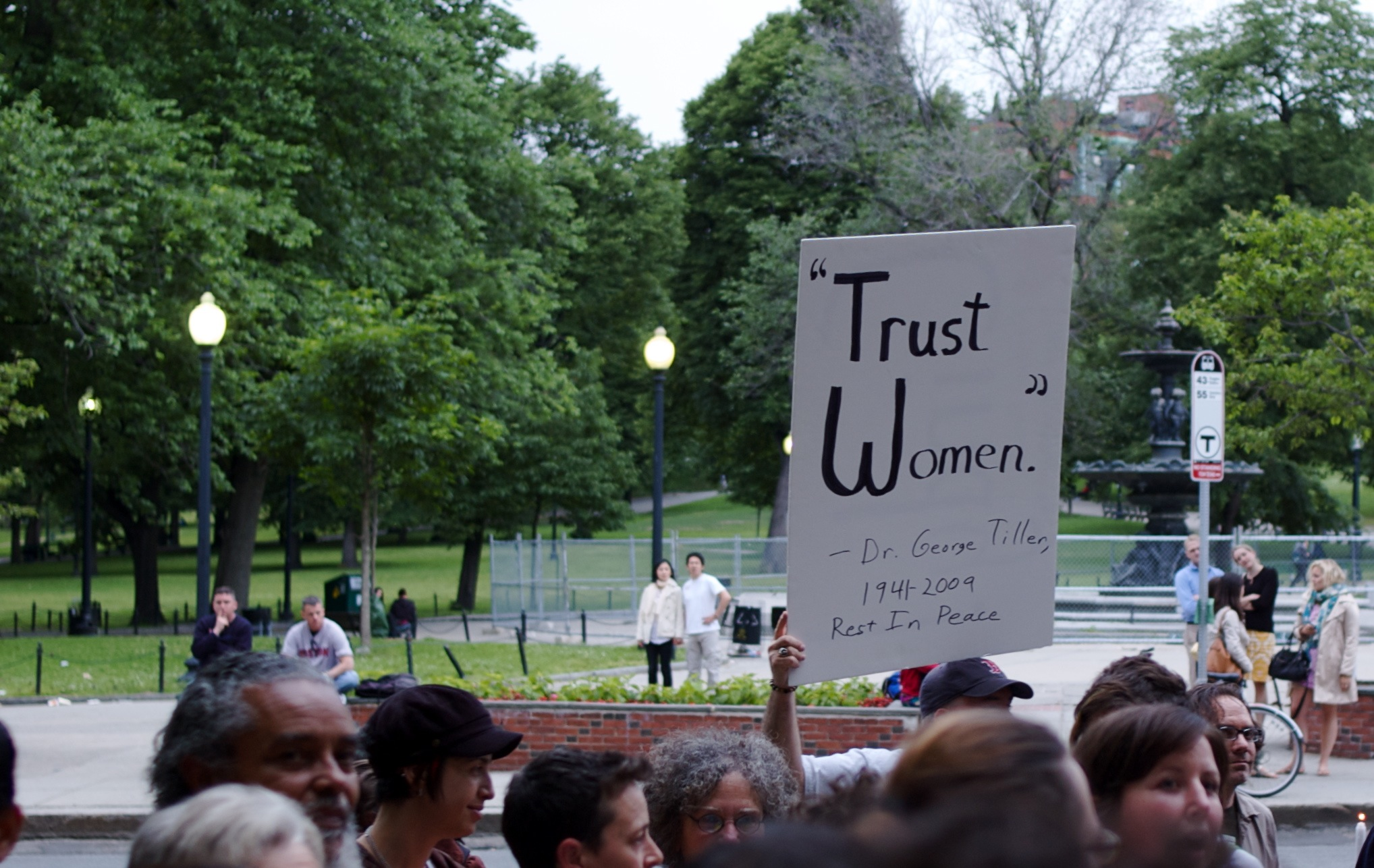 An attendee at a candlelight vigil in Boston, Massachusetts for Dr. George Tiller holds up a sign. "Trust women" was the legend on a button Tiller was known to wear.